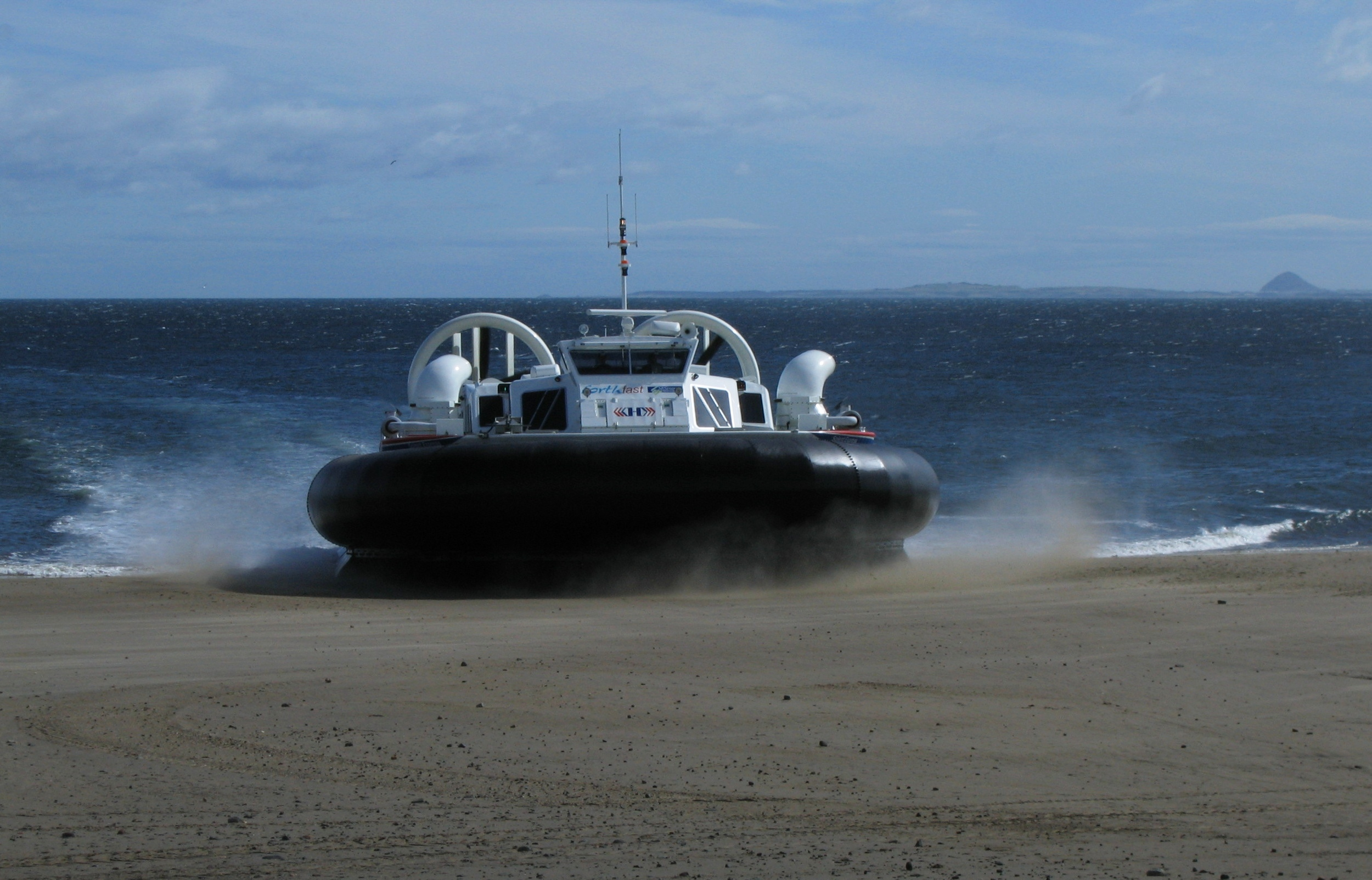 The hovercraft Solent Express on a trial run between Edinburgh and Kirkaldy going onto the beach at Portobello.